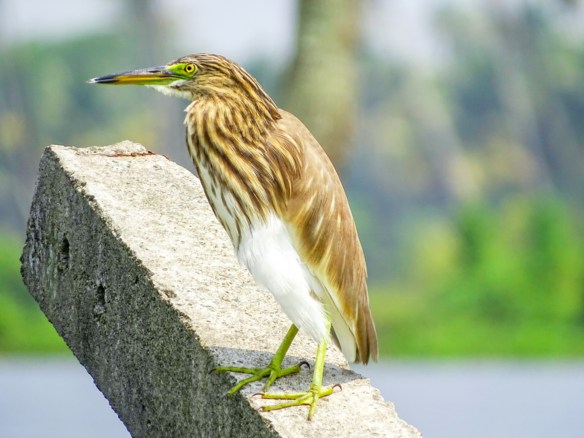 Ardeola grayii, Indian pond heron. From Ezhupunna